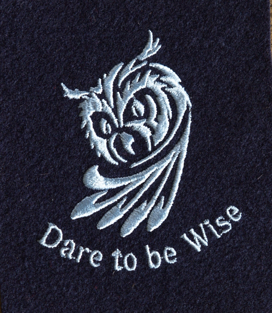 The MGS Junior School badge on the blazer and tie